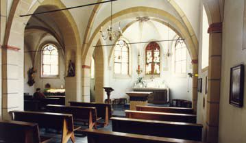 Die Georgskapelle in der Innenansicht